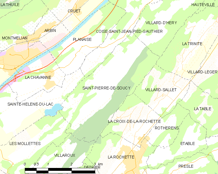 Map of French municipality Saint-Pierre-de-Soucy